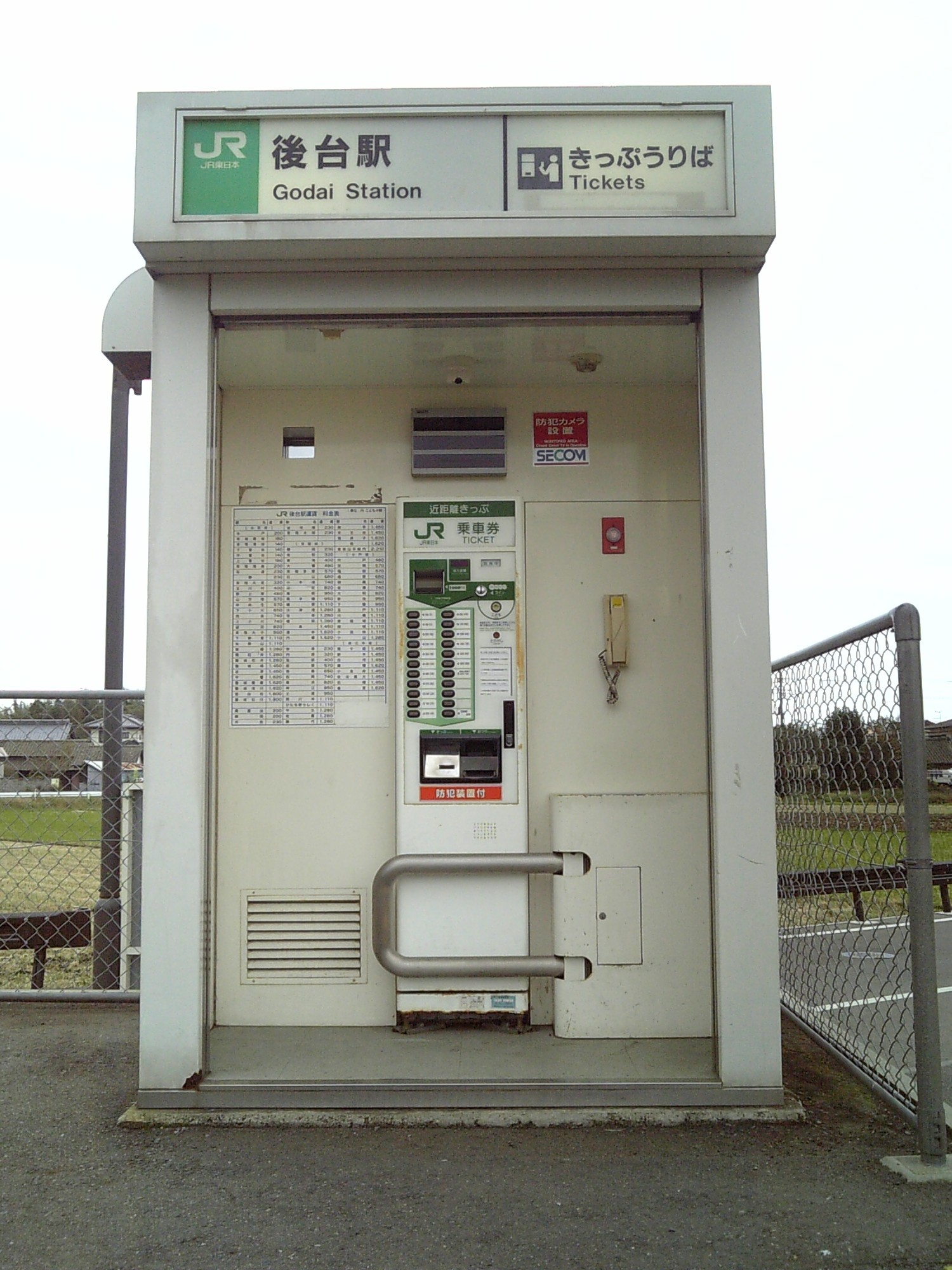 A train ticket vending machine for unattended stations. I took this photo at JR East Godai Station.